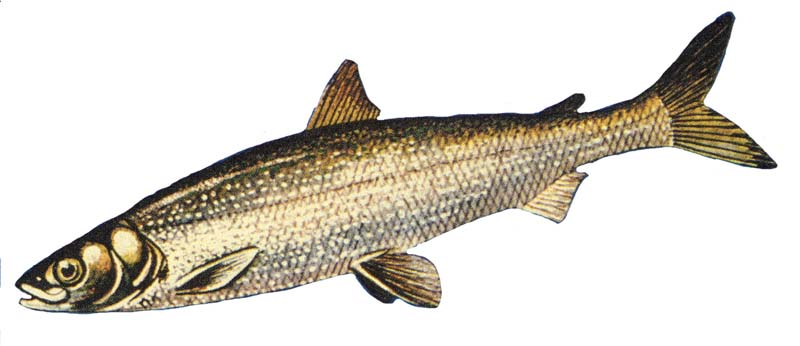 From Great Lakes Environmental Research Laboratory photogallery